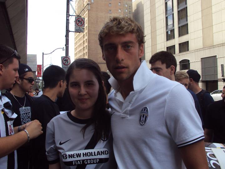 Italian football player Claudio Marchisio (right) with Juventus FC at Toronto, Ontario, Canada in July 2011.